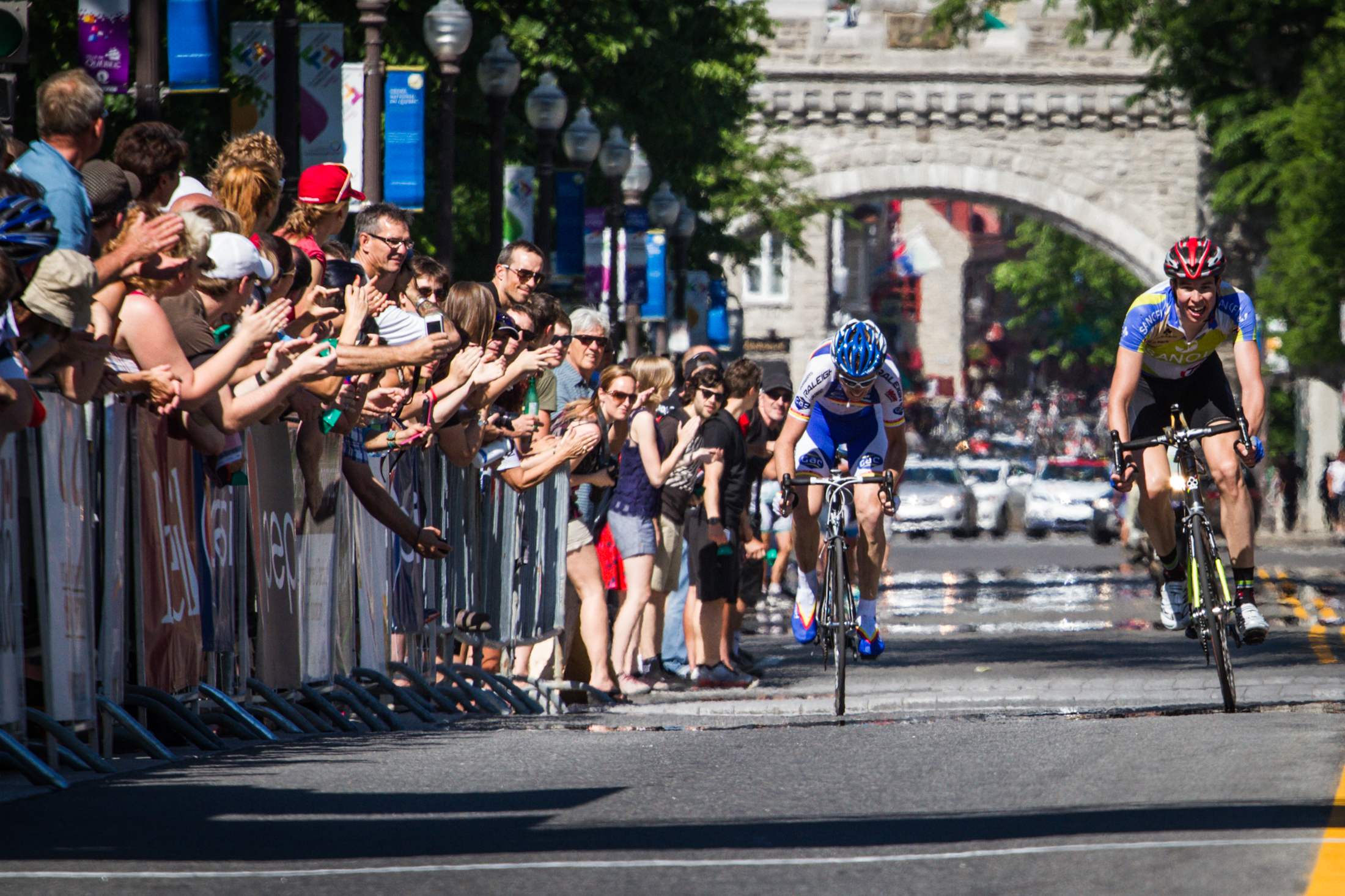 The first two cyclists arriving at the finish line of the fifth stage of the 27th Tour de Beauce 2012, in Québec, Quebec. At the right on the photo, Vegard Stake Laengen, the winner of the stage, member of team Type 1. At the left, Russell Hampton, in 2nd place, member of team Raleigh.